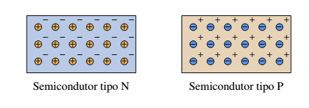 Extrinsic semiconductors: N and P types.